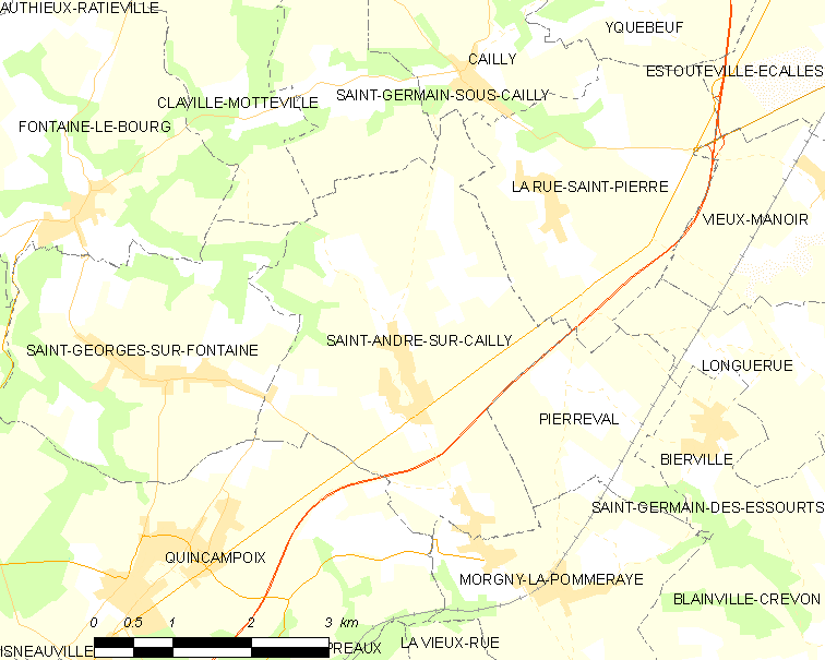 Map of French municipality Saint-André-sur-Cailly